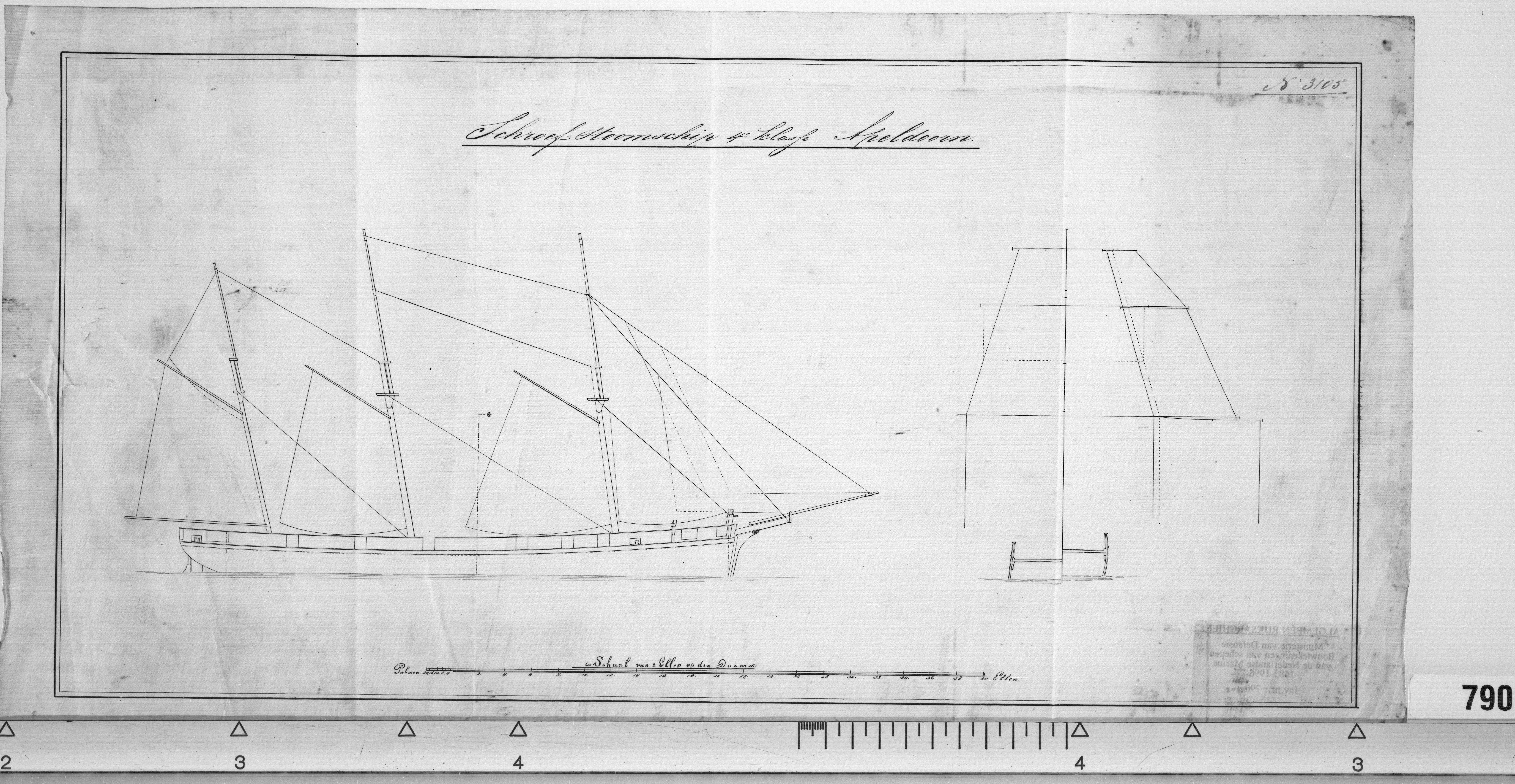 Design drawing of Dutch gunvessel HNLMS Apeldoorn (1860-1866) of the Haarlemmermeer class.